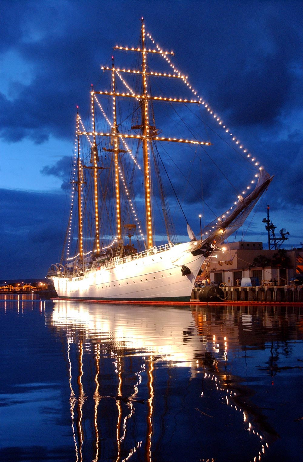 Pearl Harbor, Hawaii (May 17, 2004) - The Chilean Tall Ship Esmeralda sits in Pearl Harbor at sunset, while on a four-day port visit before heading to Japan. The ship and her crew of more than 300 Sailors interacted with the local Chilean community, toured the island, and laid a wreath at the Arizona Memorial. The ship is a 360-foot steel-hulled, four-masted barquentine with a total of 31 sails, making her one of the largest sailing vessels afloat. U.S. Navy photo by Journalist Seaman Ryan C. McGinley (RELEASED)